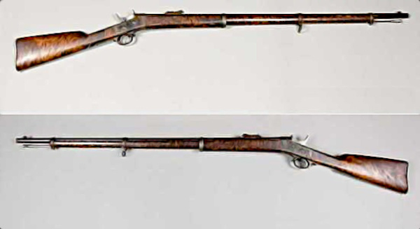 Swedish rifle m/1867, Remington rolling block. Serial number 1, from the collection of Armémuseum (The Swedish Army Museum), Stockholm.